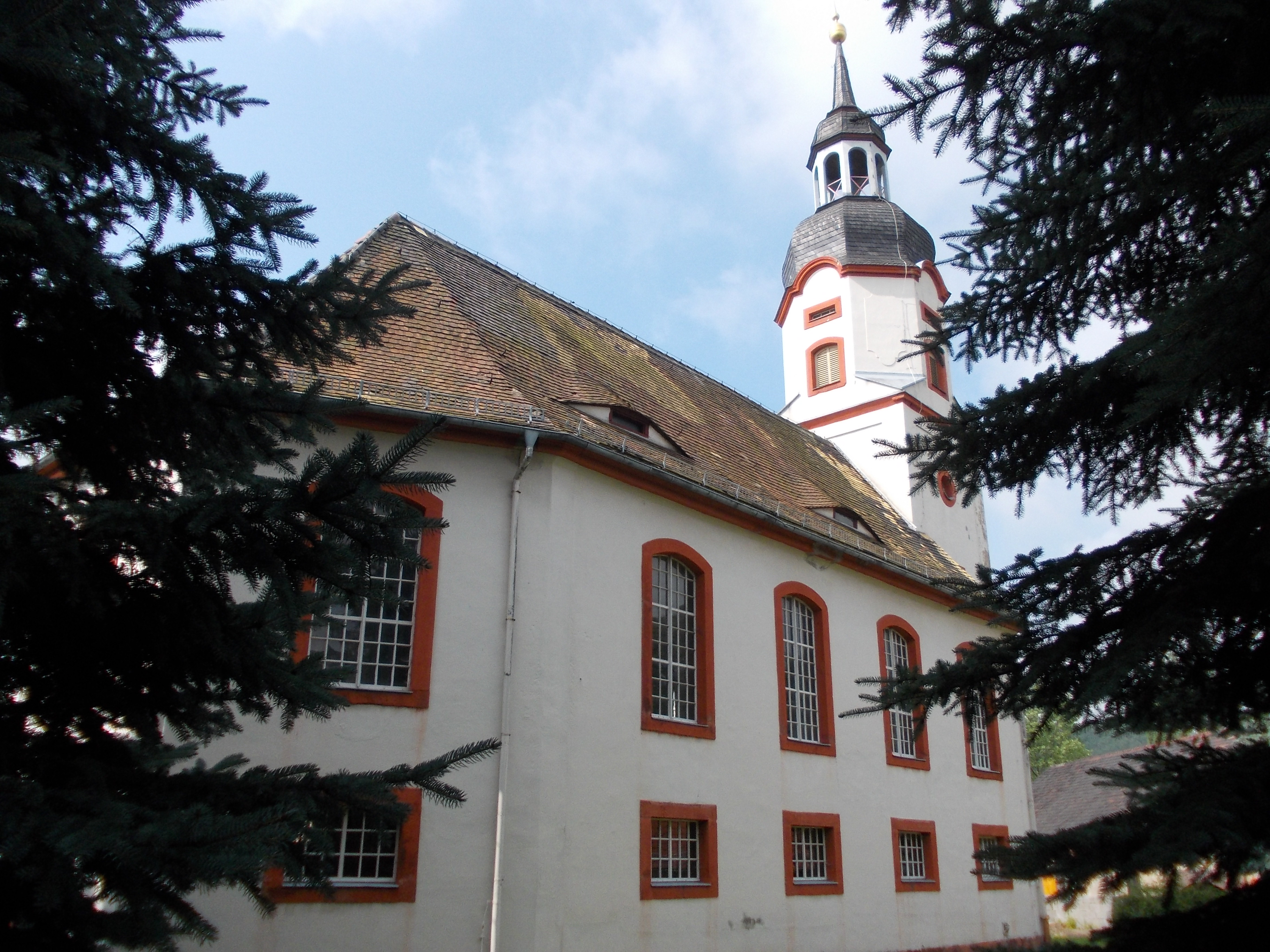 St. Andrew's Church in Trages (Kitzscher, Leipzig district, Saxony)